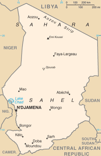 Cropped version of Chad map from CIA World Factbook (July 2011 version showing South Sudan). Based on File:Cd-map.png (331 × 716 pixels).